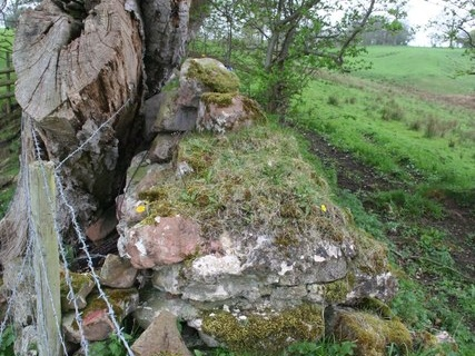 Hadrian's Wall unrestored